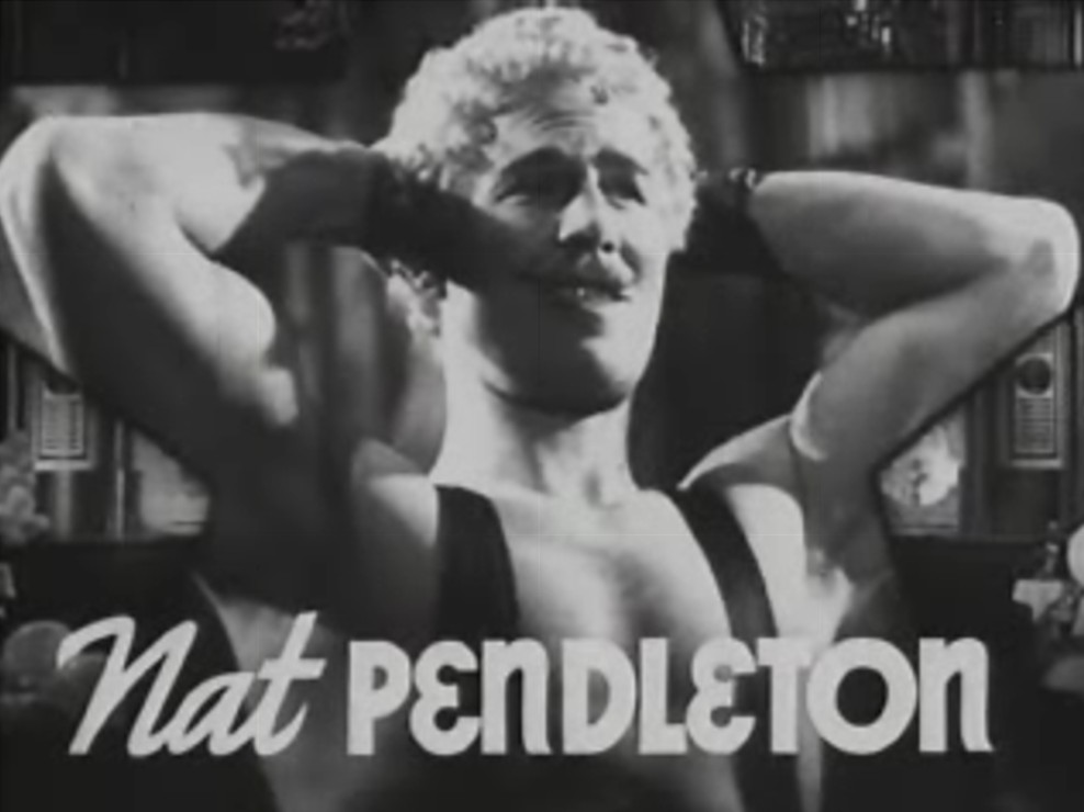 Cropped screenshot of Nat Pendleton as Eugen Sandow from the trailer for The Great Ziegfeld